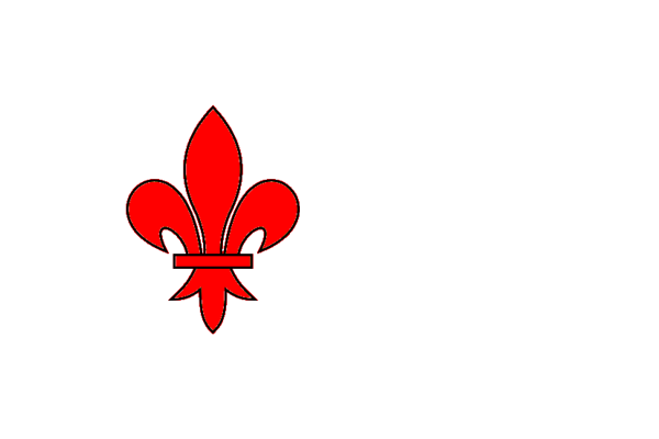 Flag of Oupeye